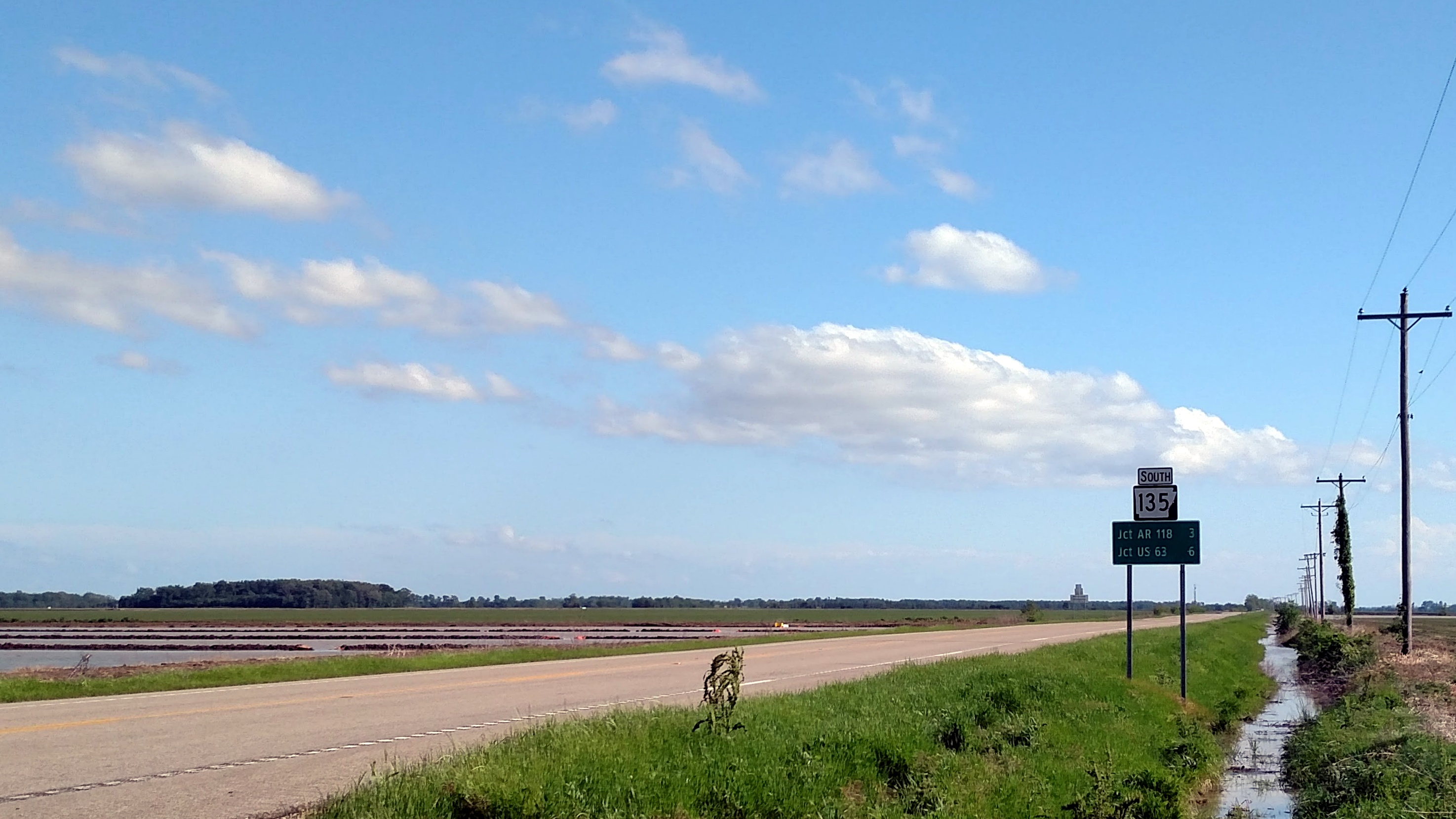 Highway 135 in Arkansas, passing through a wide, flat Arkansas Delta landscape